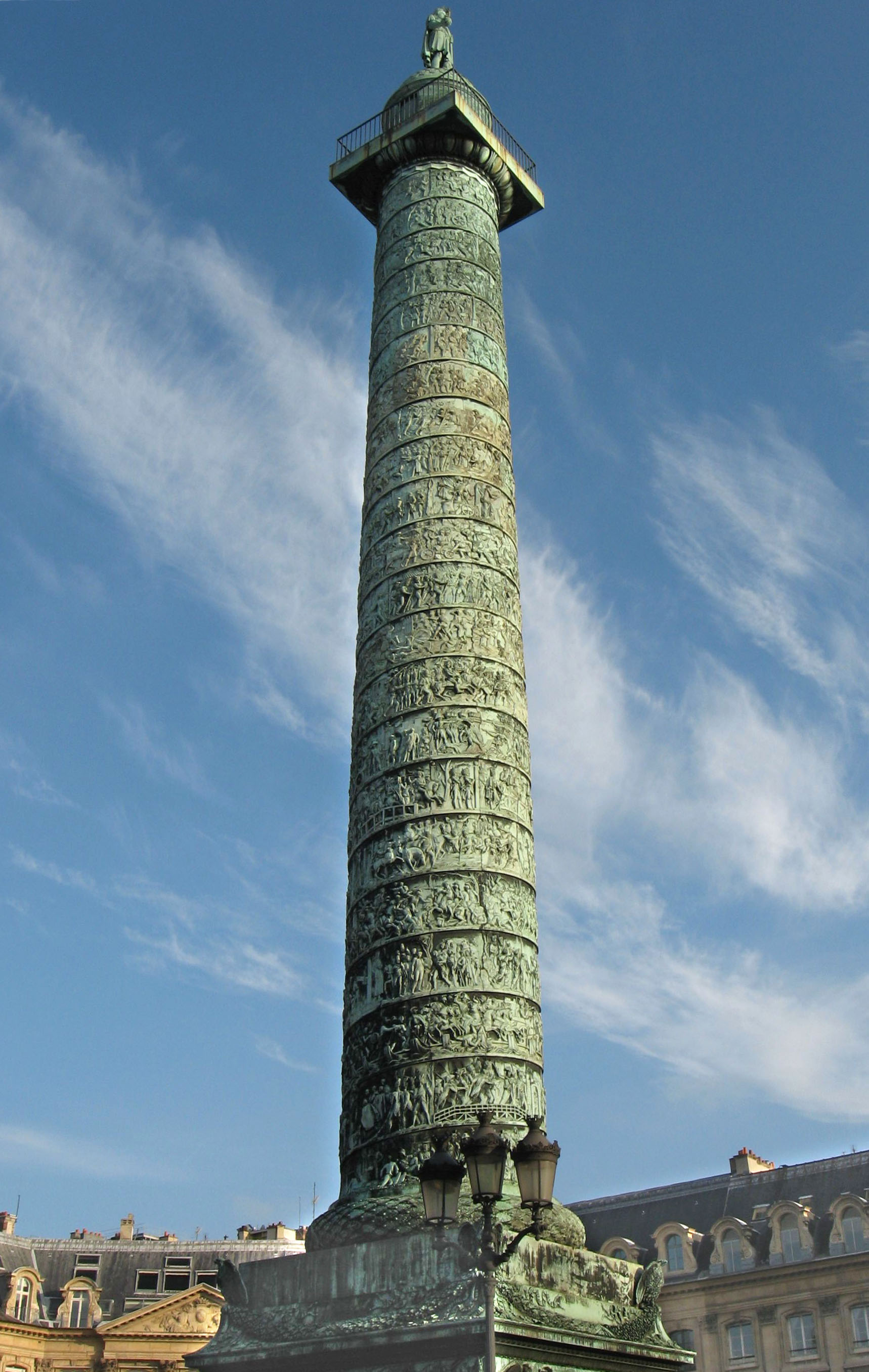 Coloumn in Place Vendôme - Paris